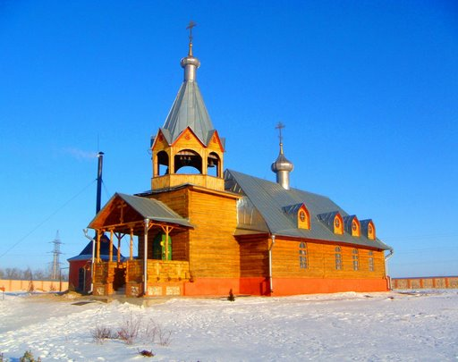 Mikhaylov, Ryazan Oblast. Pokrovsky Monastery